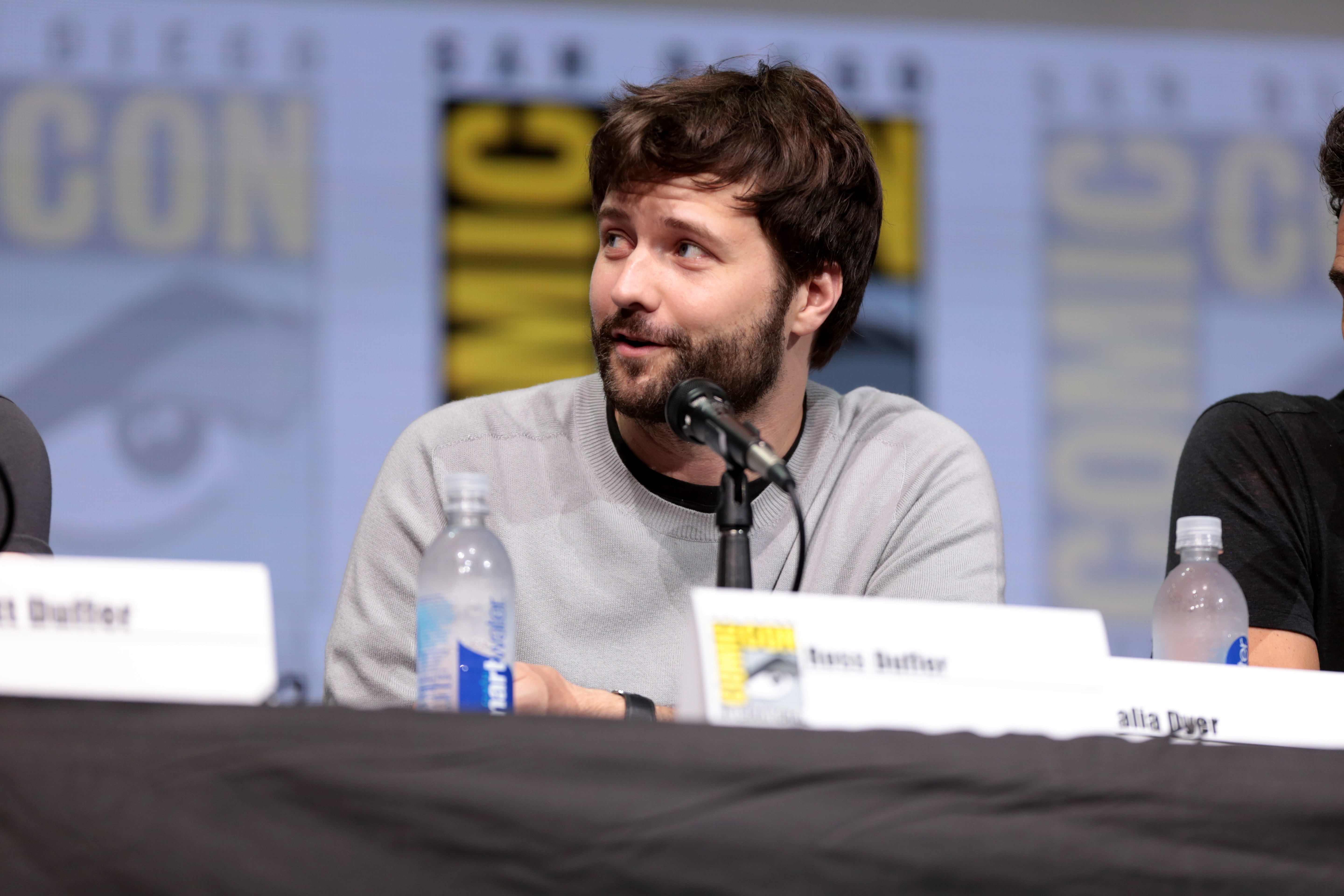 Ross Duffer speaking at the 2017 San Diego Comic Con International, for "Stranger Things", at the San Diego Convention Center in San Diego, California.